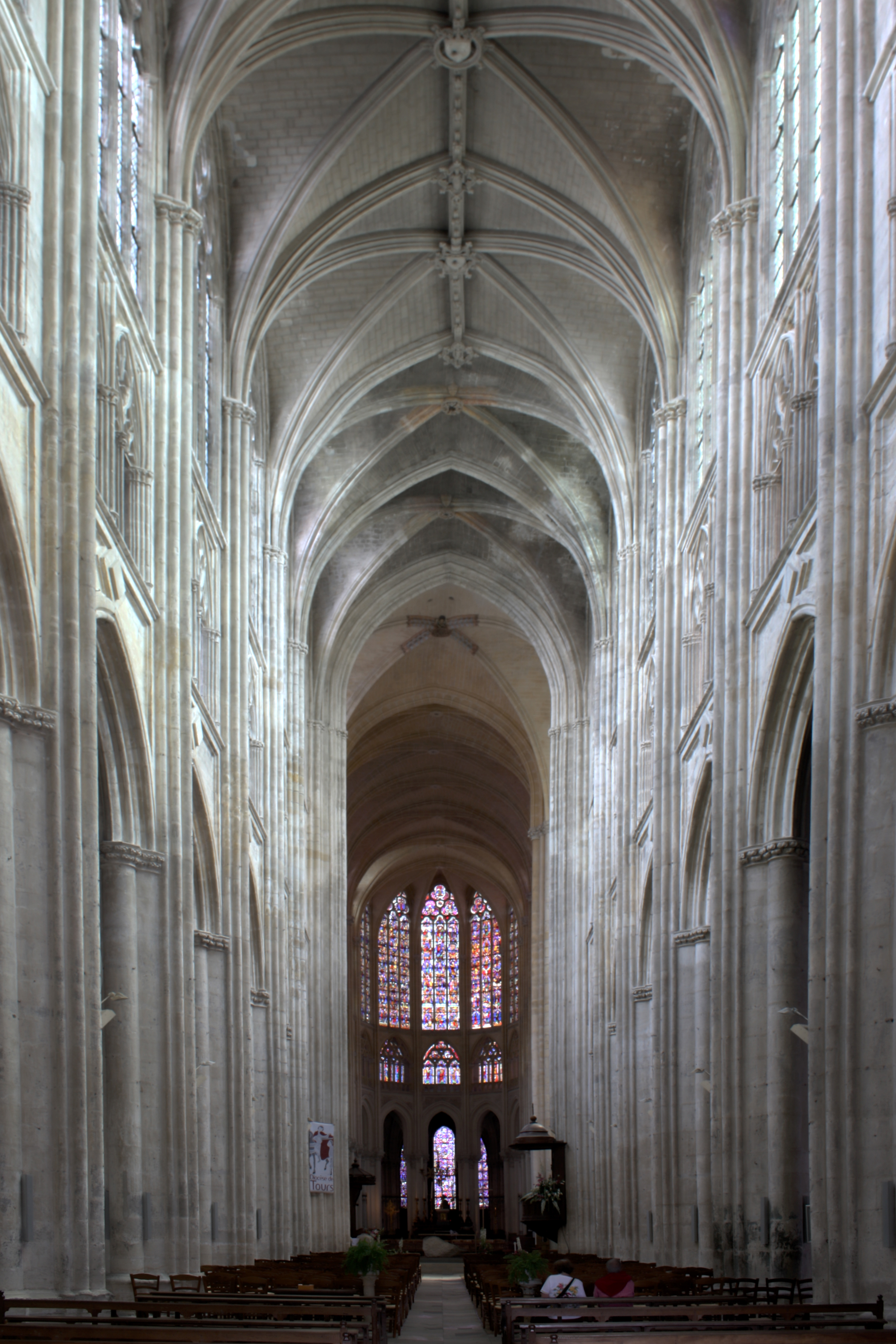 The nave of Tours Cathedral.